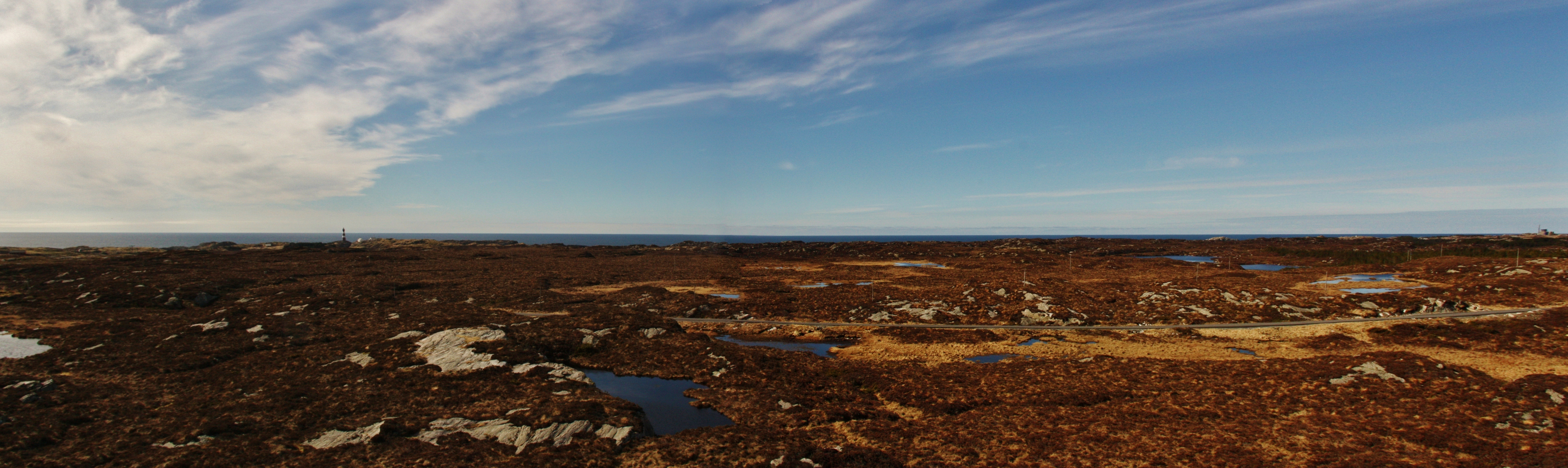 Southern Fedje from Fedjebjørnen (42 masl)